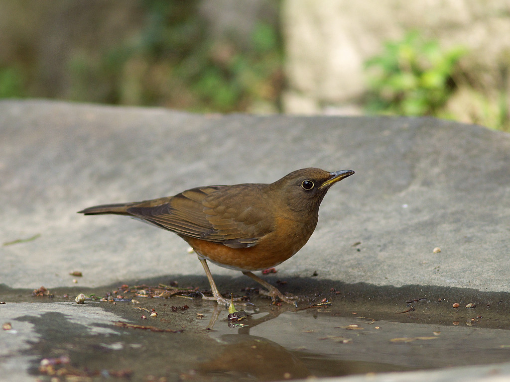 Common winter visitor in Taiwan. Taken at C.K.S. Memorial Hall, Taipei.